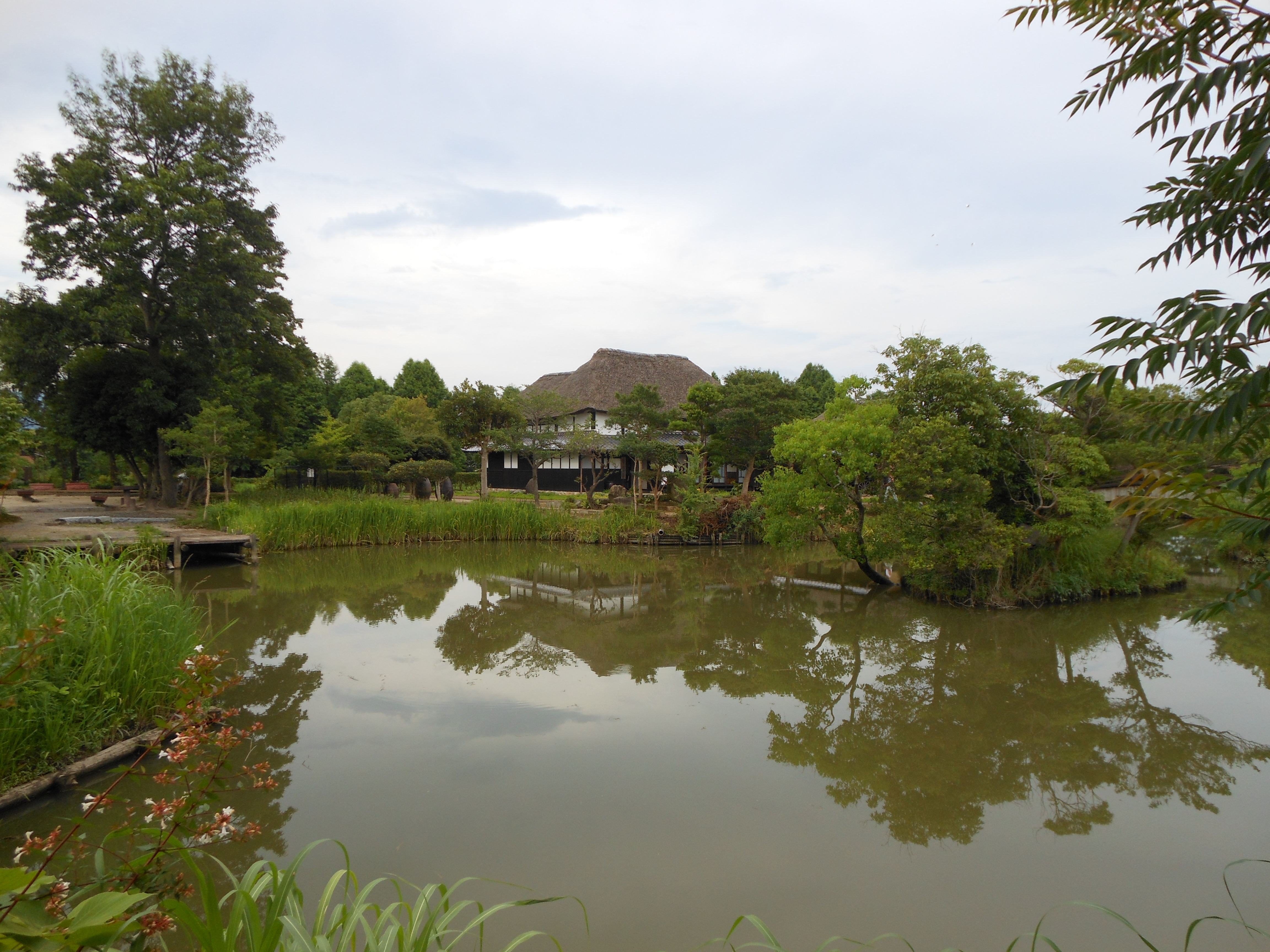 Southwest of Yokotake Creek Park, Kanzaki city, Saga prefecture, Japan.